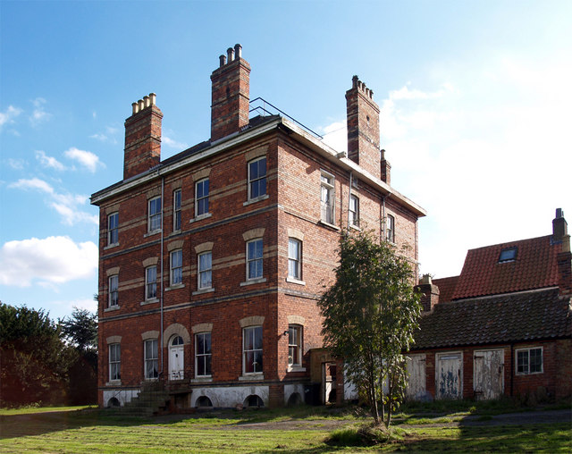 Down Hall. Pevsner says of this building "Prominent at the N end of the village is DOWN HALL, built as a combined house and basket factory in 1877, a towering block in red, yellow and patterned brick. It had a turret for a view of the Humber. The basket-making took place in the top floor and attic, with the house below." I was told that the roof railings mark where the proprietor kept watch on the workers cutting Osiers to ensure there was no slacking!